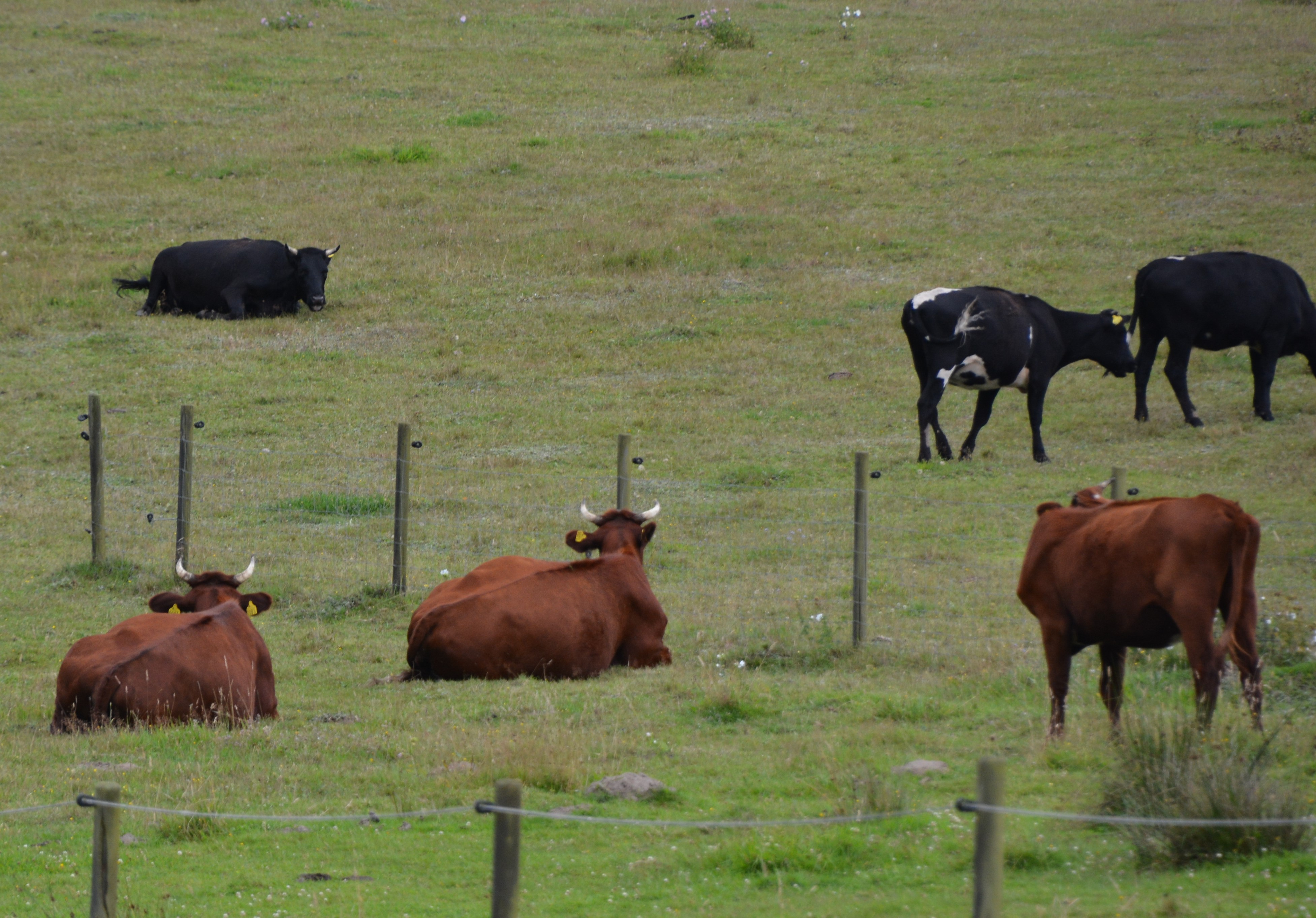 Allmogekor på Kulturens Östarp